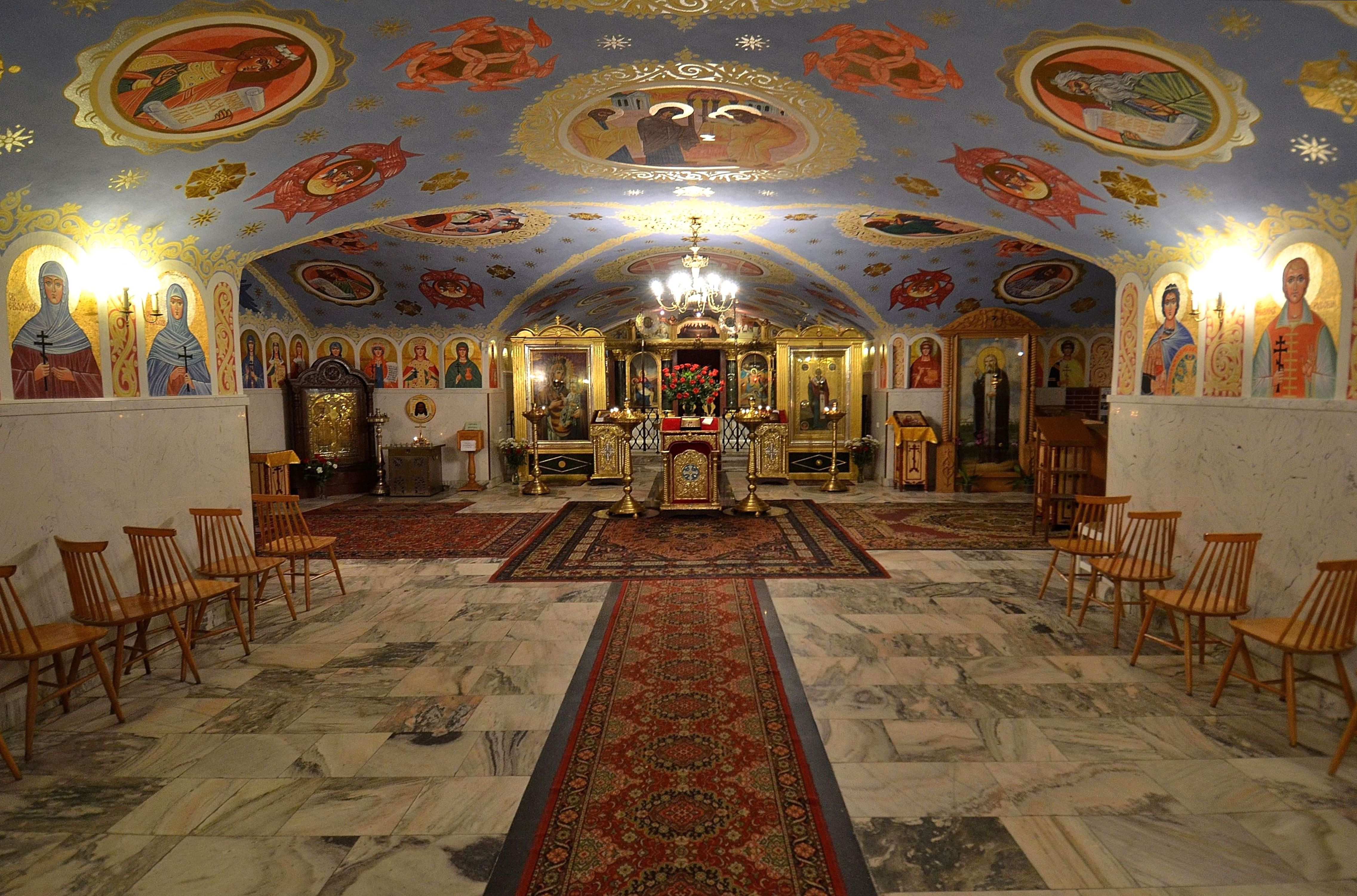 The lower church of the Metropolitan Orthodox Cathedral of St. Mary Magdalene in Warsaw